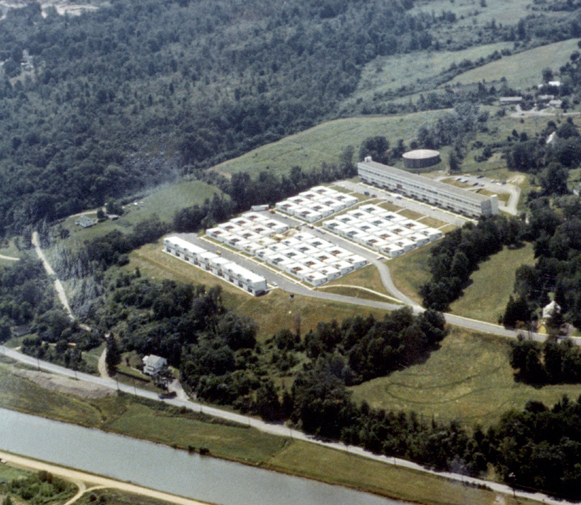 A 300 unit low- and middle-income housing project on a sloping site on the outskirts of Ithaca NY. It was sponsored by the New York State Urban Development Corporation. The units cascading down the slope were prefabricated in a factory in Oswego NY.